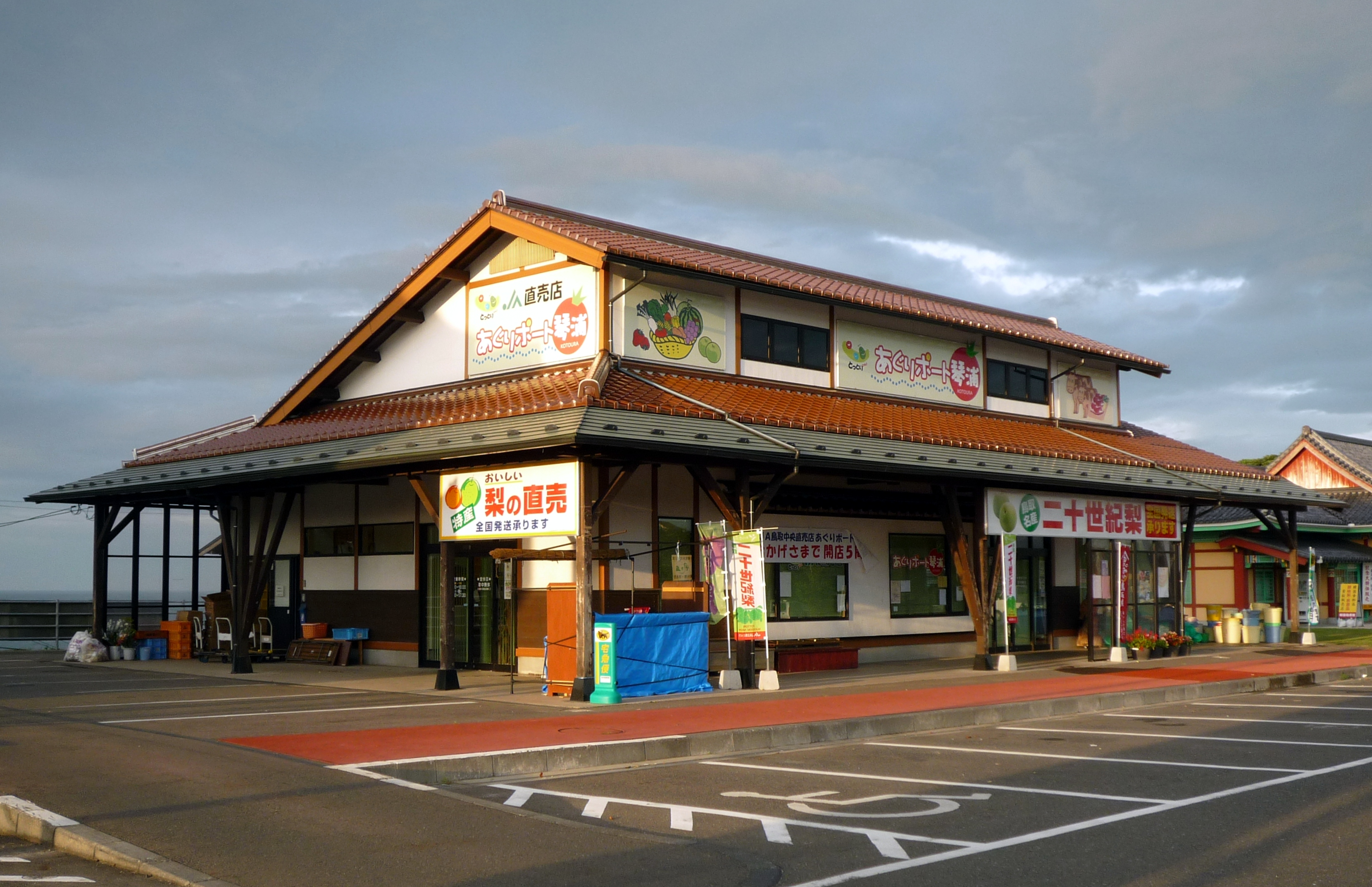 Agri-Port Kotoura at Michinoeki Port Akasaki in Kotoura Town, Tottori Prefecture, Japan